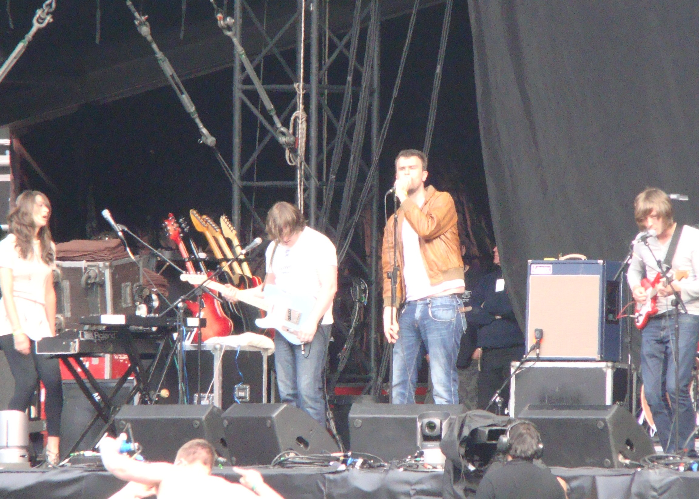 Reverend & The Makers